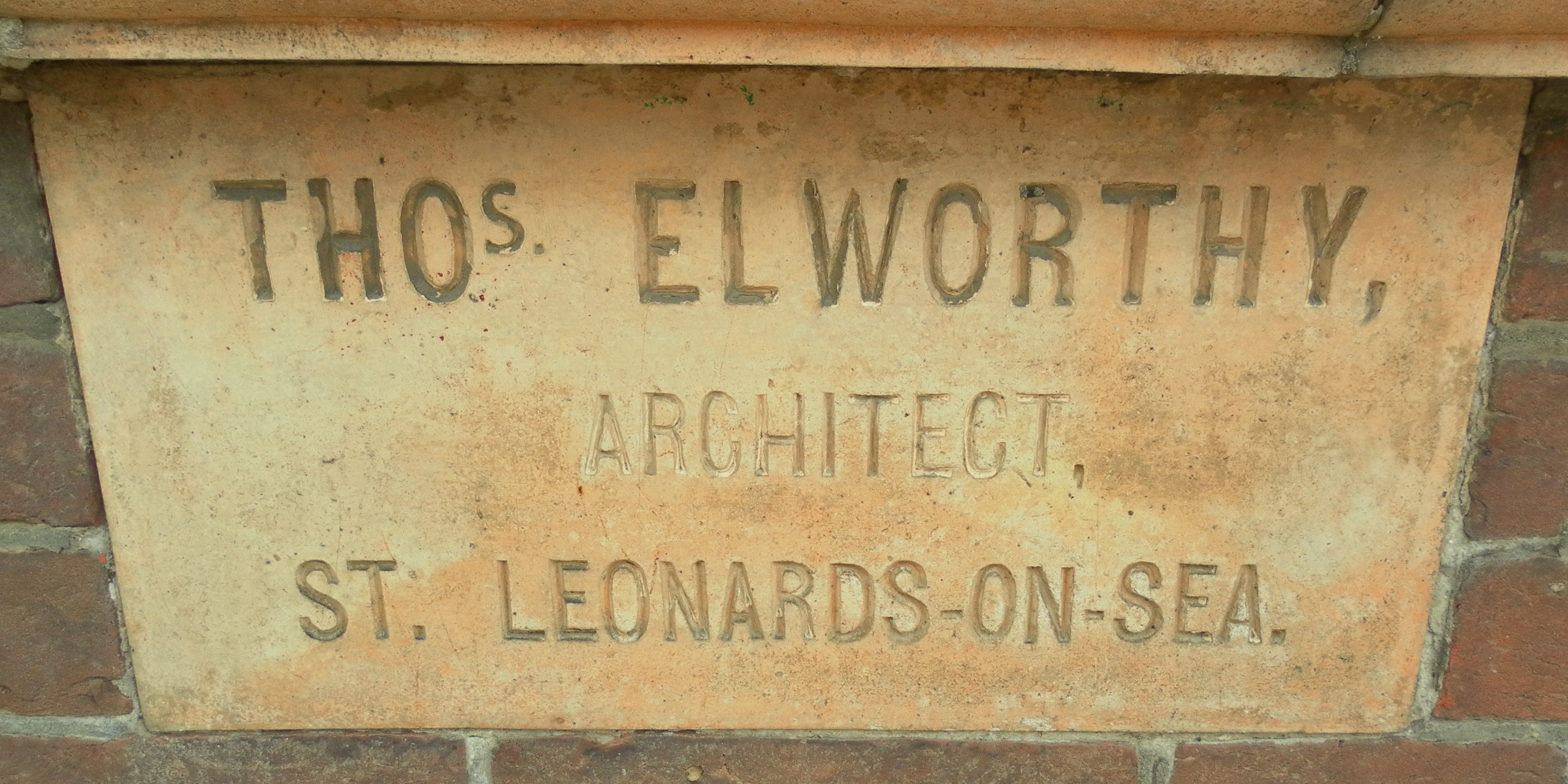 Plaque with architect's name on the front of Robertsbridge United Reformed Church, High Street, Robertsbridge, Rother District, East Sussex, England. Designed in 1881 by Thomas Elworthy of St Leonards-on-Sea. Listed at Grade II by English Heritage (NHLE Code 1221451)